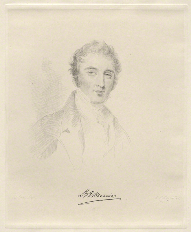 Portrait of David Richard Morier (1784–1877), English diplomat.